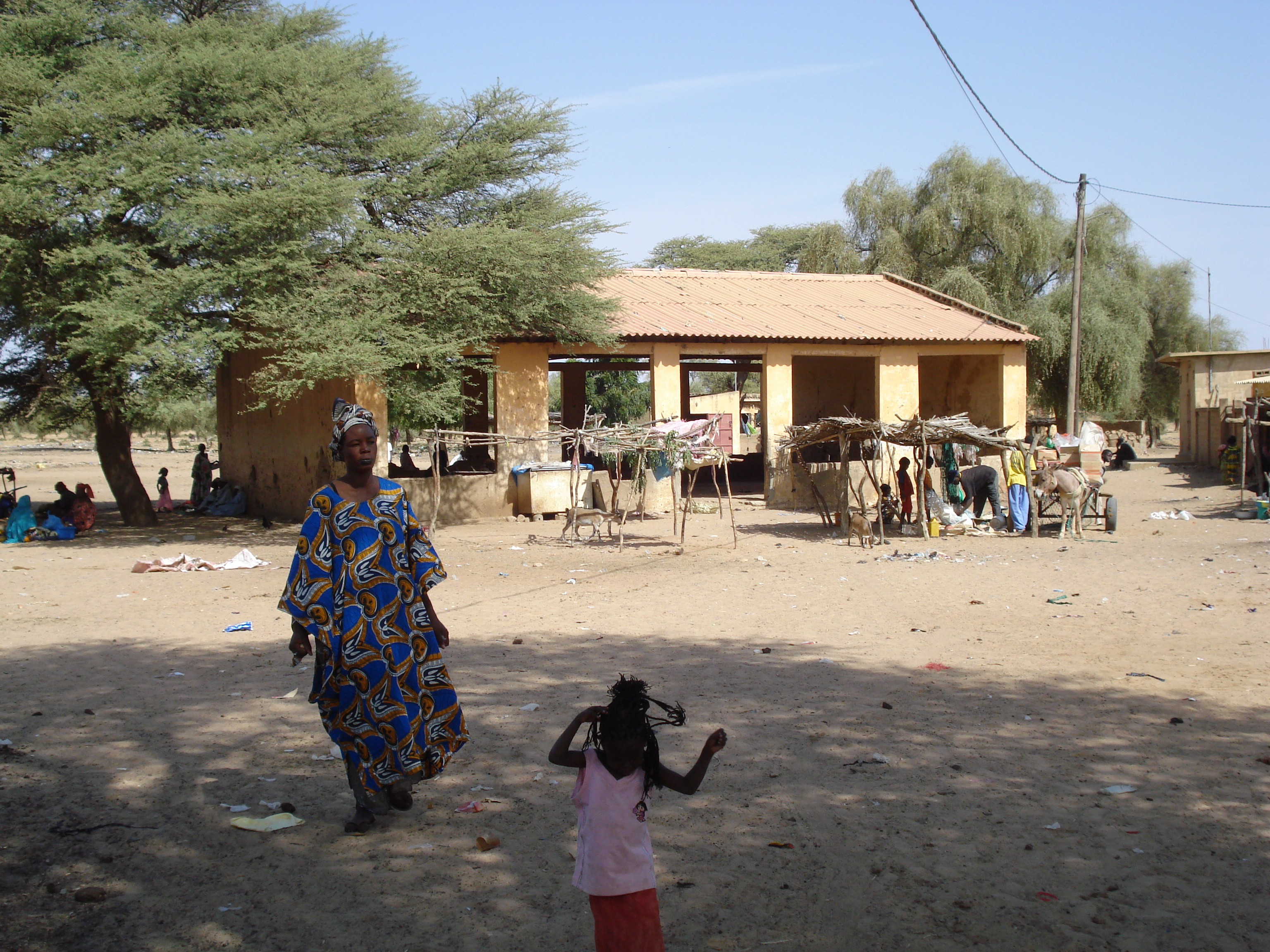 text